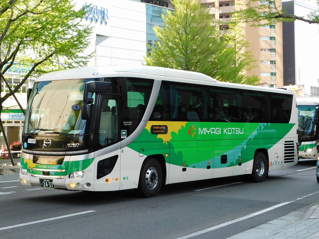 Miyagi Kotsu Hino S'elega HD (QRG-RU1ESBA)